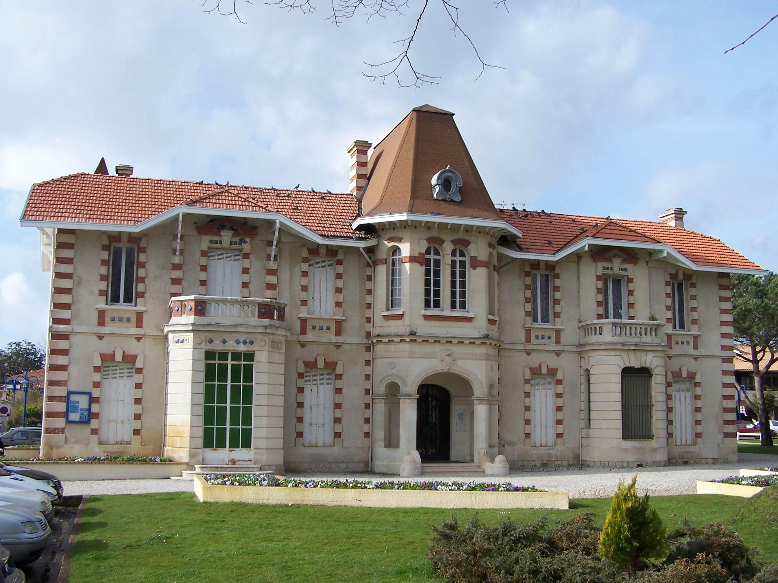 Villa Ignota à Andernos-les-Bains, Gironde, France